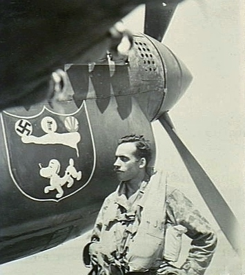 Labuan, North Borneo. 2623 Flight Lieutenant Frank R. Schaaf DFC of Pagewood, NSW, who led a flight of four aircraft of No. 82 (Kittyhawk) Squadron RAAF, which destroyed three single-engined Japanese fighter aircraft, Allied code name Oscar, on Kuching airstrip. It was the longest strike flown by single-engined fighters from the Labuan base. His aircraft carries markings and insignia (nose art) indicating that he flew with the famed Desert Harassers in the Western Desert.